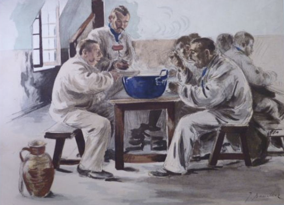 La Soupe à la chambrée by Jacques Baseilhac, lithographic print from L'Estampe moderne, vol. III, Paris, F. Champenois.